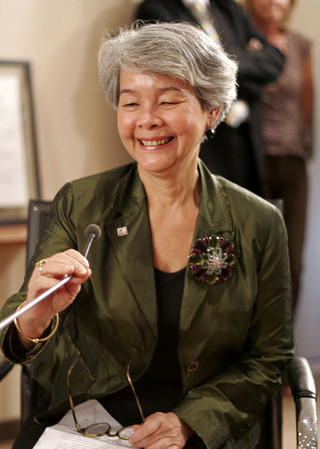 Lilian Goncalves, chair of the International Executive Committee, at the Amnesty International Ambassador of Conscience Award, Johannesburg, South Africa, 1st November 2006.